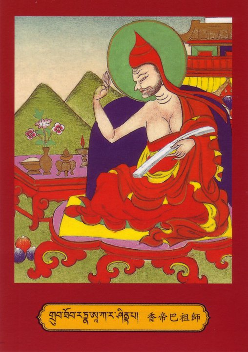 Mahasiddha Shantipa